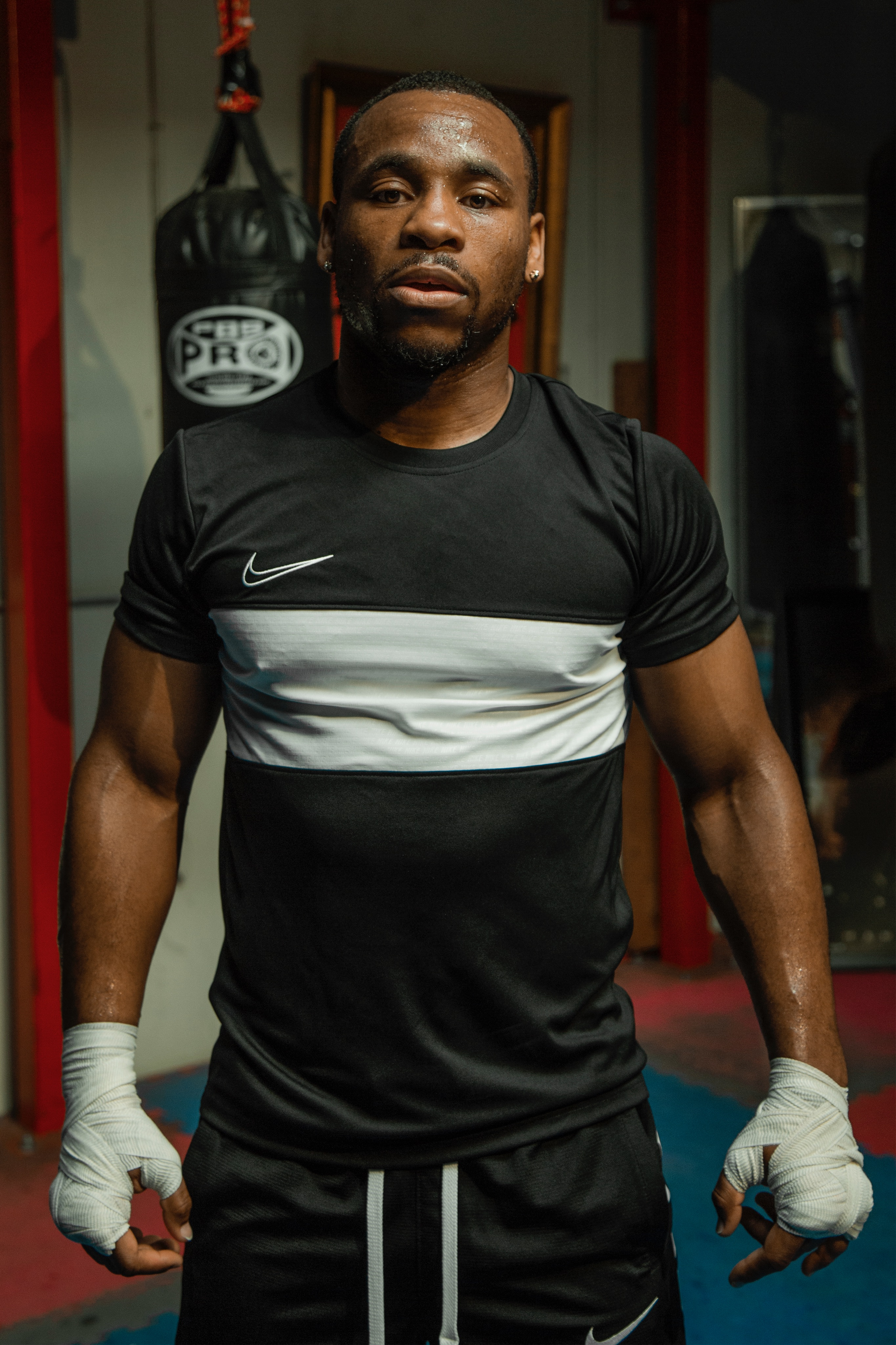 Brandon "The Cannon" Adams, March 2019. Elite Pro Boxing Gym, Los Angeles, CA